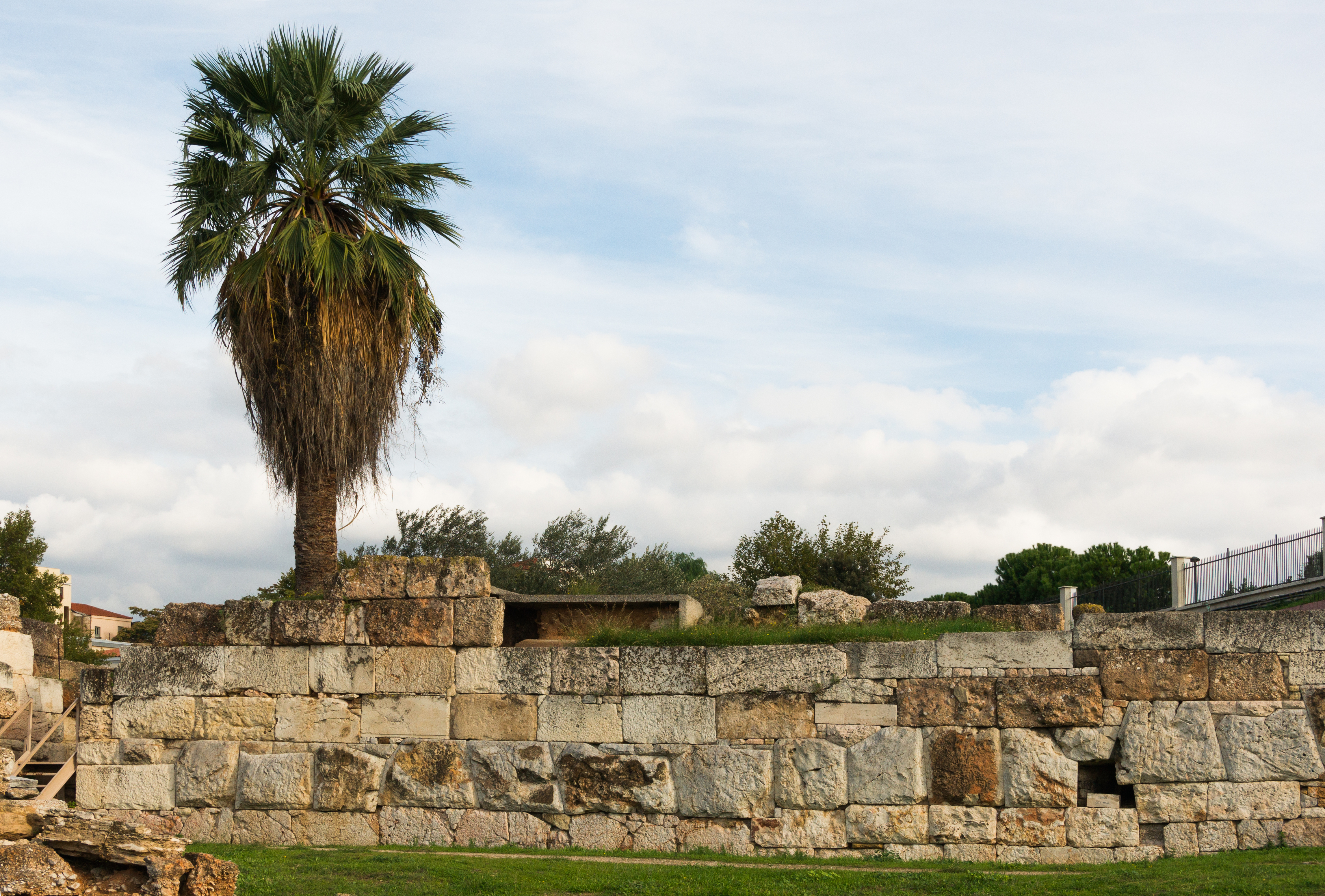 Part of the "Wall of Themistocles", Kerameikos, ancient city wall of Athens, Greece.